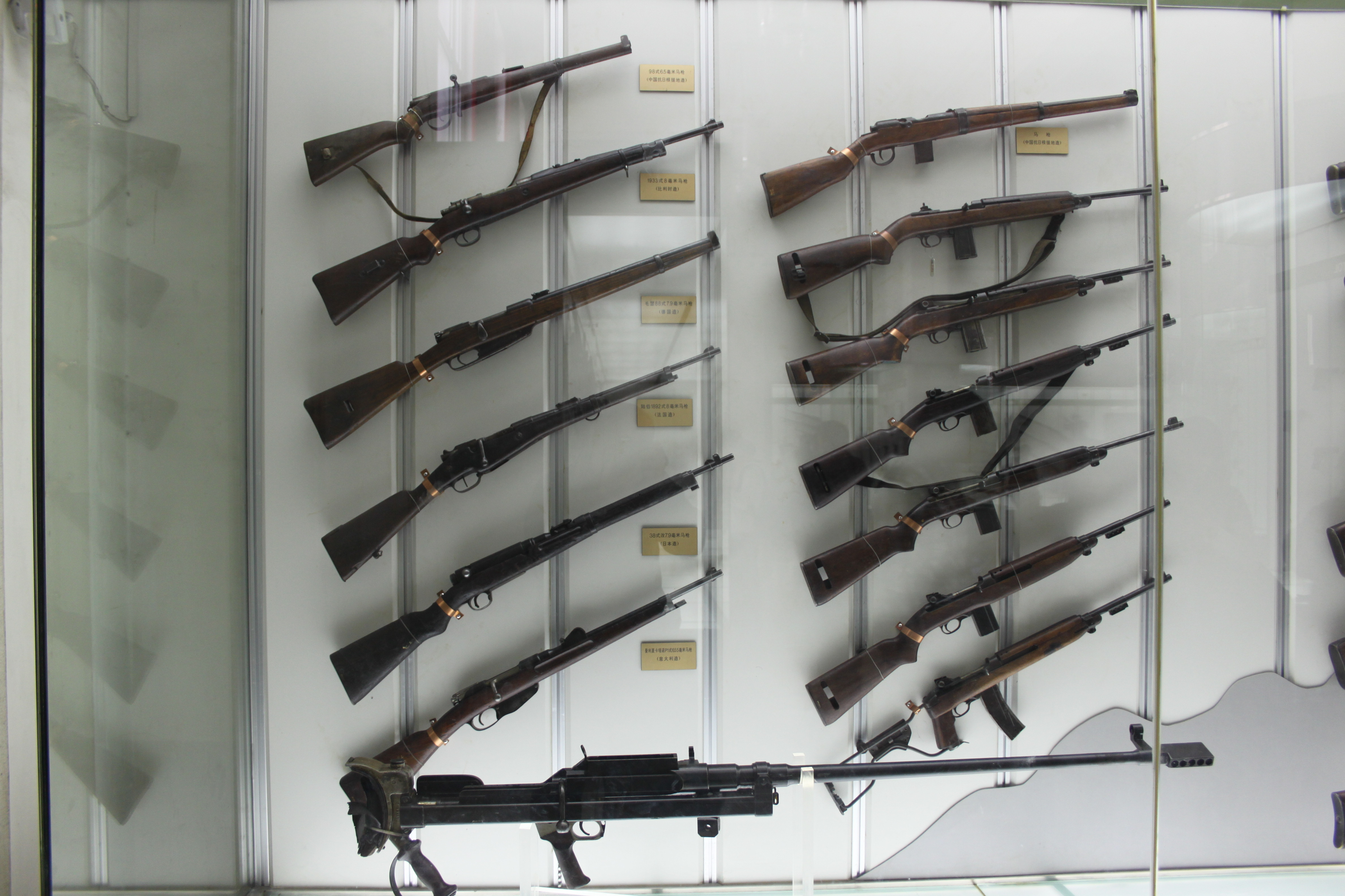 Military Museum: Modern Weapons, Small Arms Gallery. Complete indexed photo collection at .